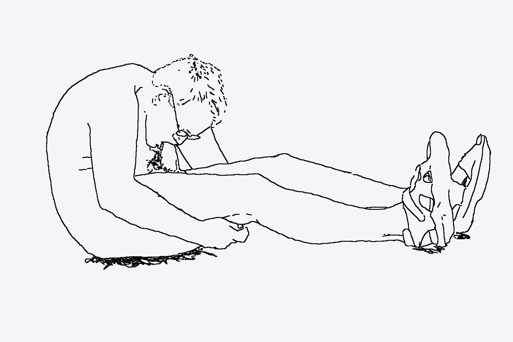 Drawing depicting autofellatio performed in the sitting position-"over easy".